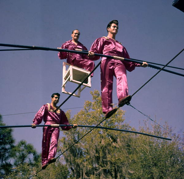 Persistent URL: Local call number: JJS0047 Title: The Flying Wallendas in Sarasota, Florida Date: 1960s General note: Left to right: Richard Guzman, Karl Wallenda, and Raymond Chitty. Physical descrip: 1 transparency - col. - 5 x 4 in. Series Title: Repository: 500 S. Bronough St., Tallahassee, FL 32399-0250 USA. Contact: 850.245.6700.